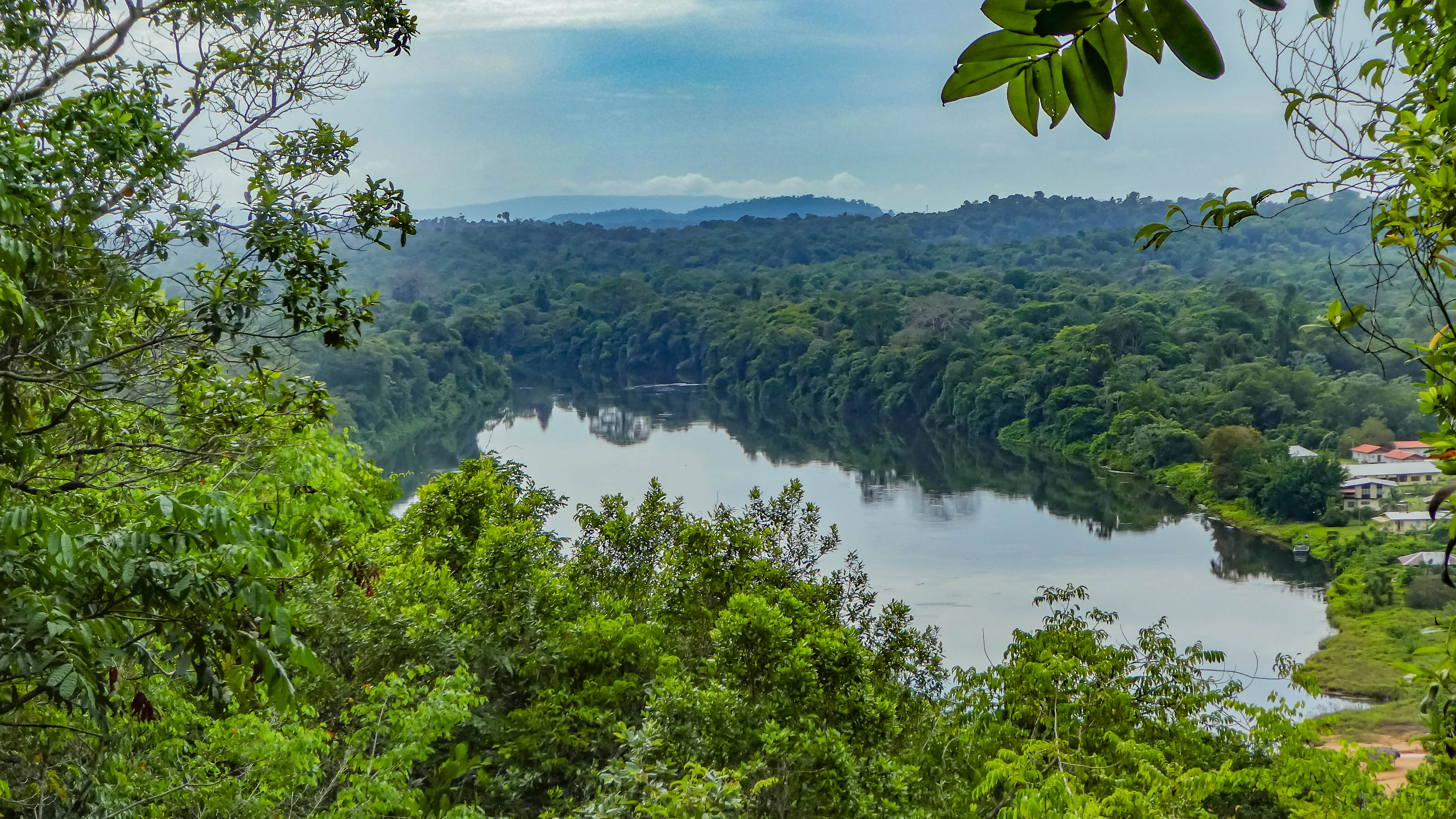 View of the Suriname river from the Blauwe Berg, or Blue Mountain, on the former Berg en Dal plantation